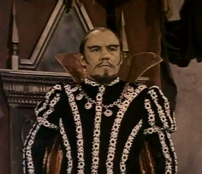 Torin Thatcher in Jack the Giant Killer (1962) - trailer (cropped screenshot)